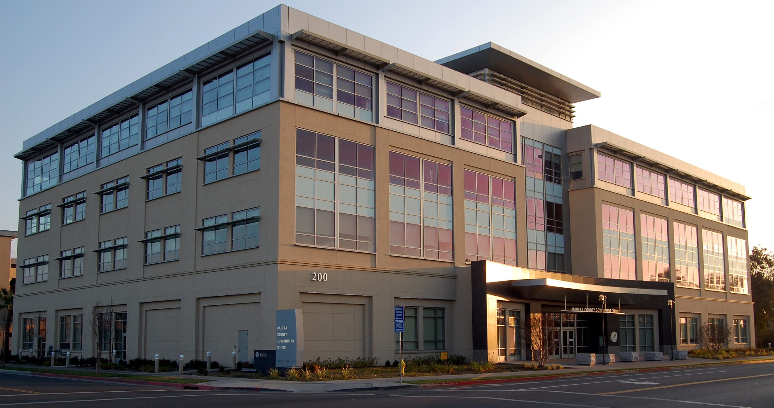 Sunset at the Madera County Government Center — located in the county seat of Madera, California. About this image Was captured using film or digital camera equipment. May lack artistic merit but documents the existence of the subject(s). May have had elements including colors, composition, gamma, exposure, or size adjusted using camera-, lens-, scanner-settings or by applying image editing software. May have had aberrations, flare, or reflections removed in order that the subject of the image is more clearly visible. Is intended to be representative of the view of the subject that would be perceived by a human eye.